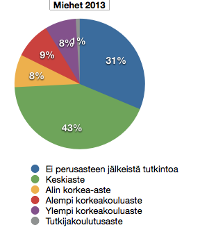 Education level of over 15 years old males from Finland in 2013. Source tilastokeskus koulutustilastot 2014